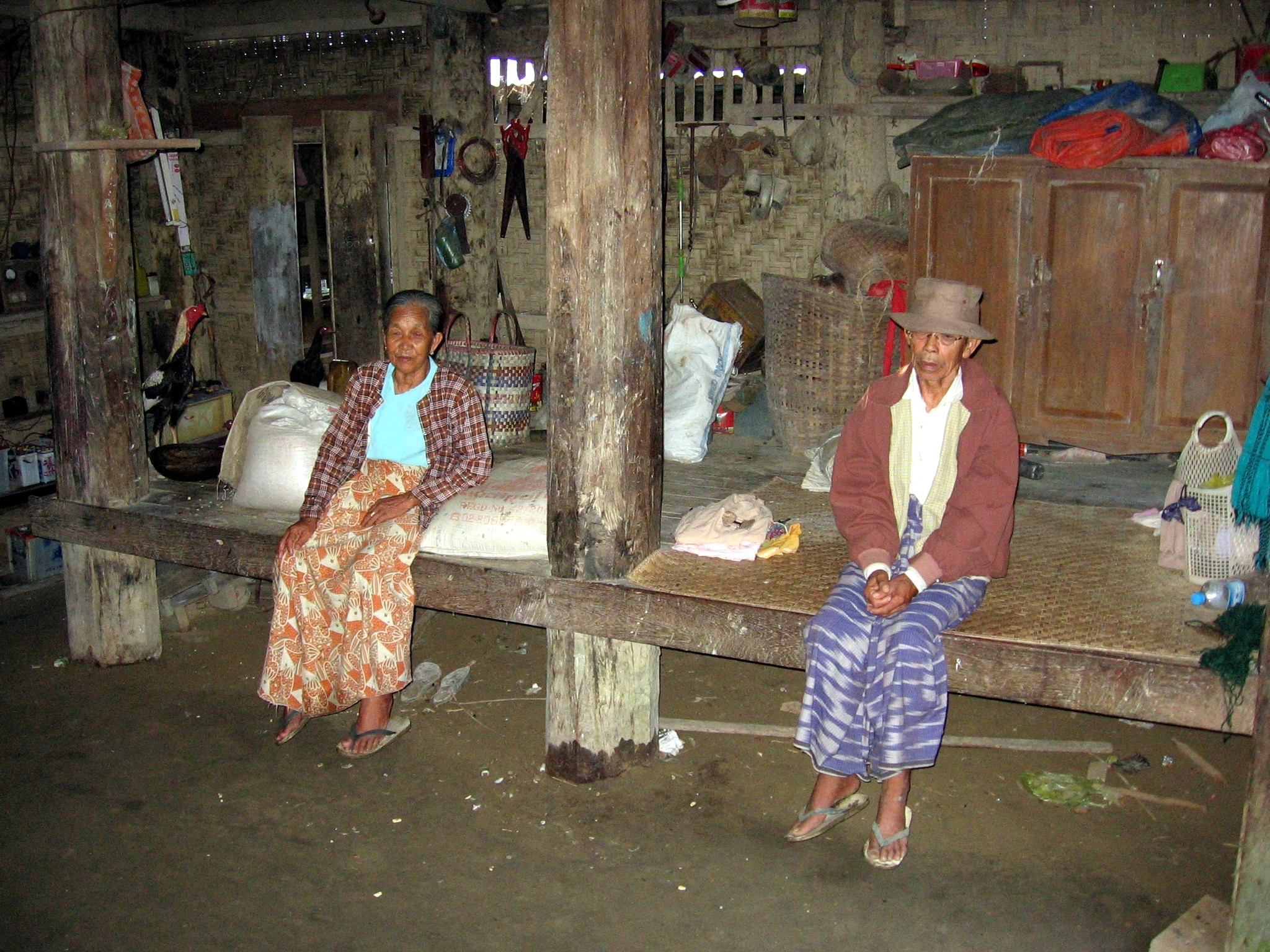 Local people in an island in Ayeyarwady River near Bhamo (Myanmar).